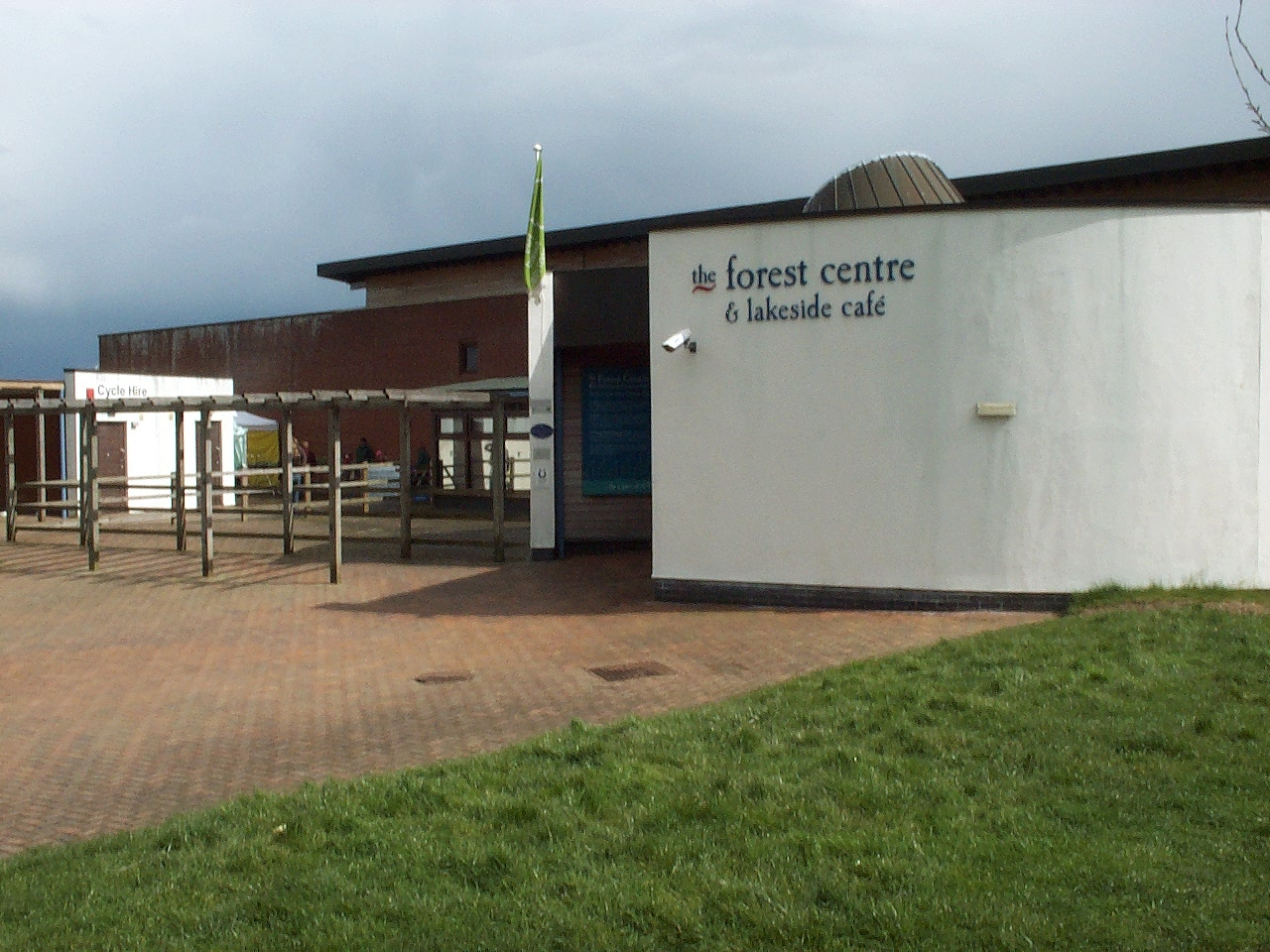 The Marston Vale Forest Centre. This is the visitor's centre in the Marston Vale Millennium Country Park in the Forest of Marston Vale in Marston Moretaine, Bedfordshire, England.